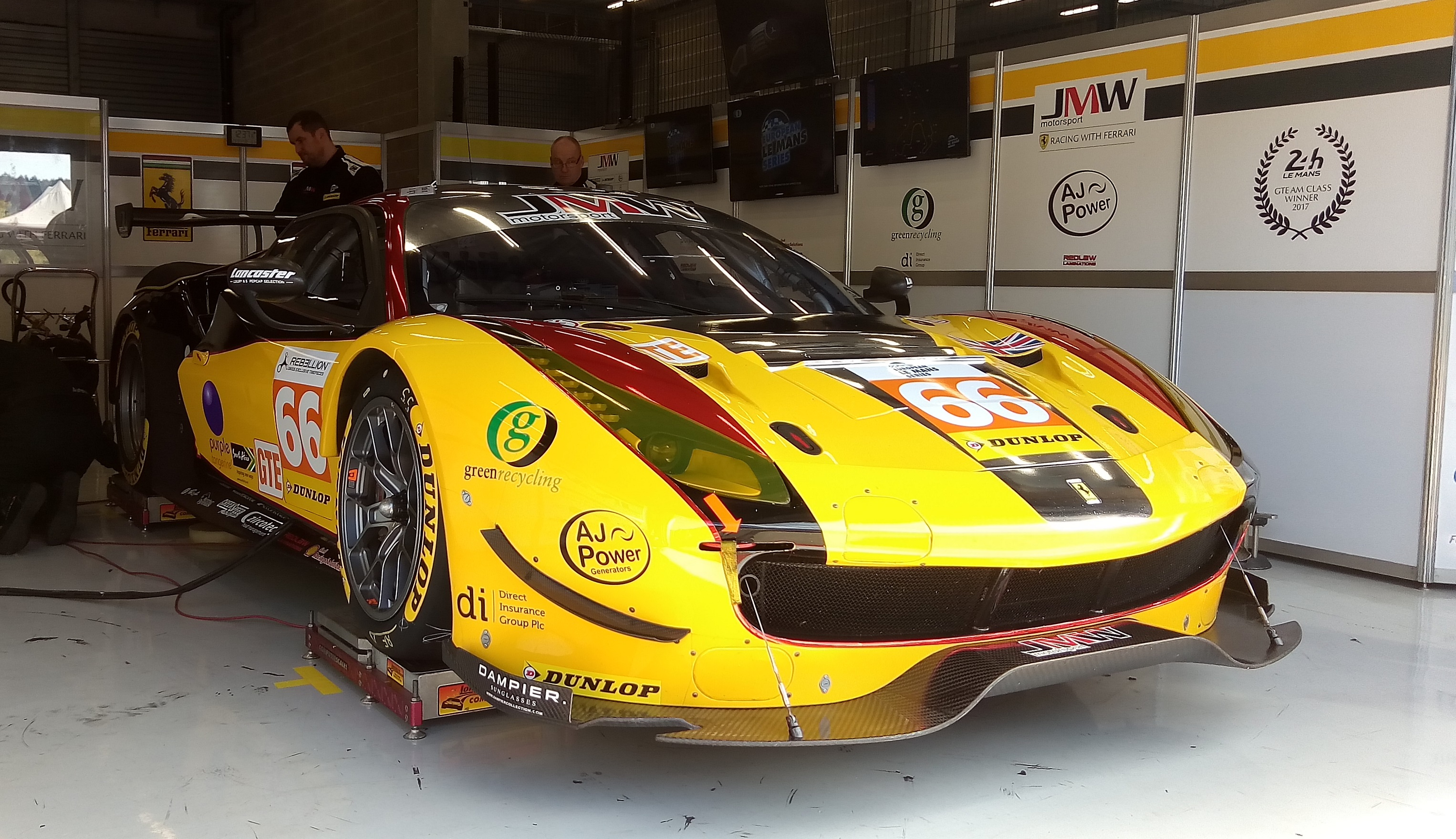 The JMW Racing Ferrari 488 GTE as raced by Robert Smith, Jody Fannin and Will Stevens in the 2017 4 Hours of Spa.